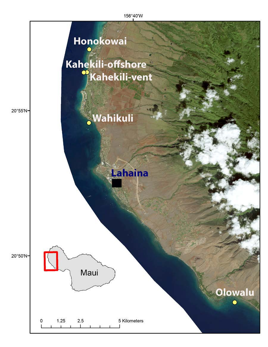 A map (along with an inset) of the northwestern shore area of the island of Maui, that highlights the location of the Lahaina Wastewater Treatment Plant and other nearby cities, as well as its proximity to the shoreline.